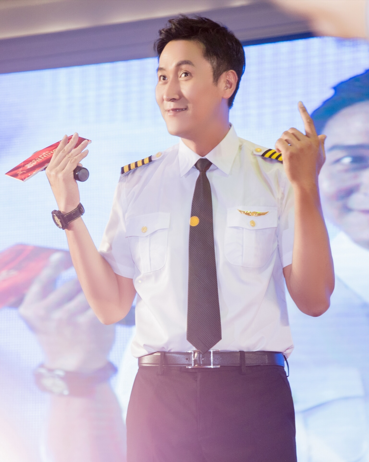 Joe Ma attend function